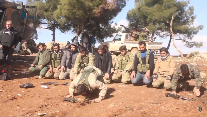 FSA Captures Bursaya Mountain And Begin The Battles To Reach Afrin